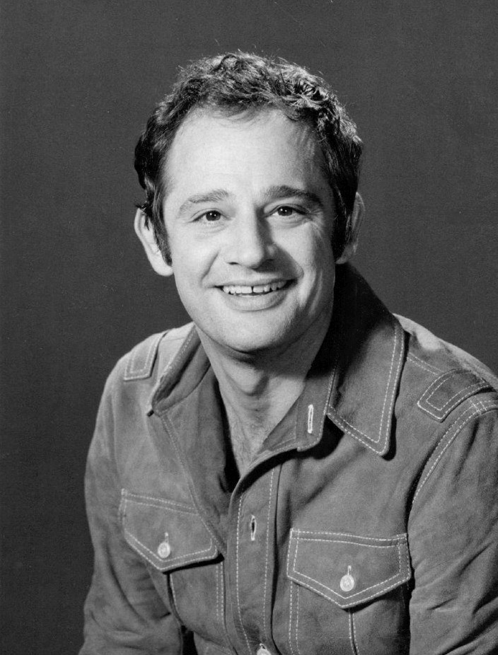 Photo of actor Lou Antonio.